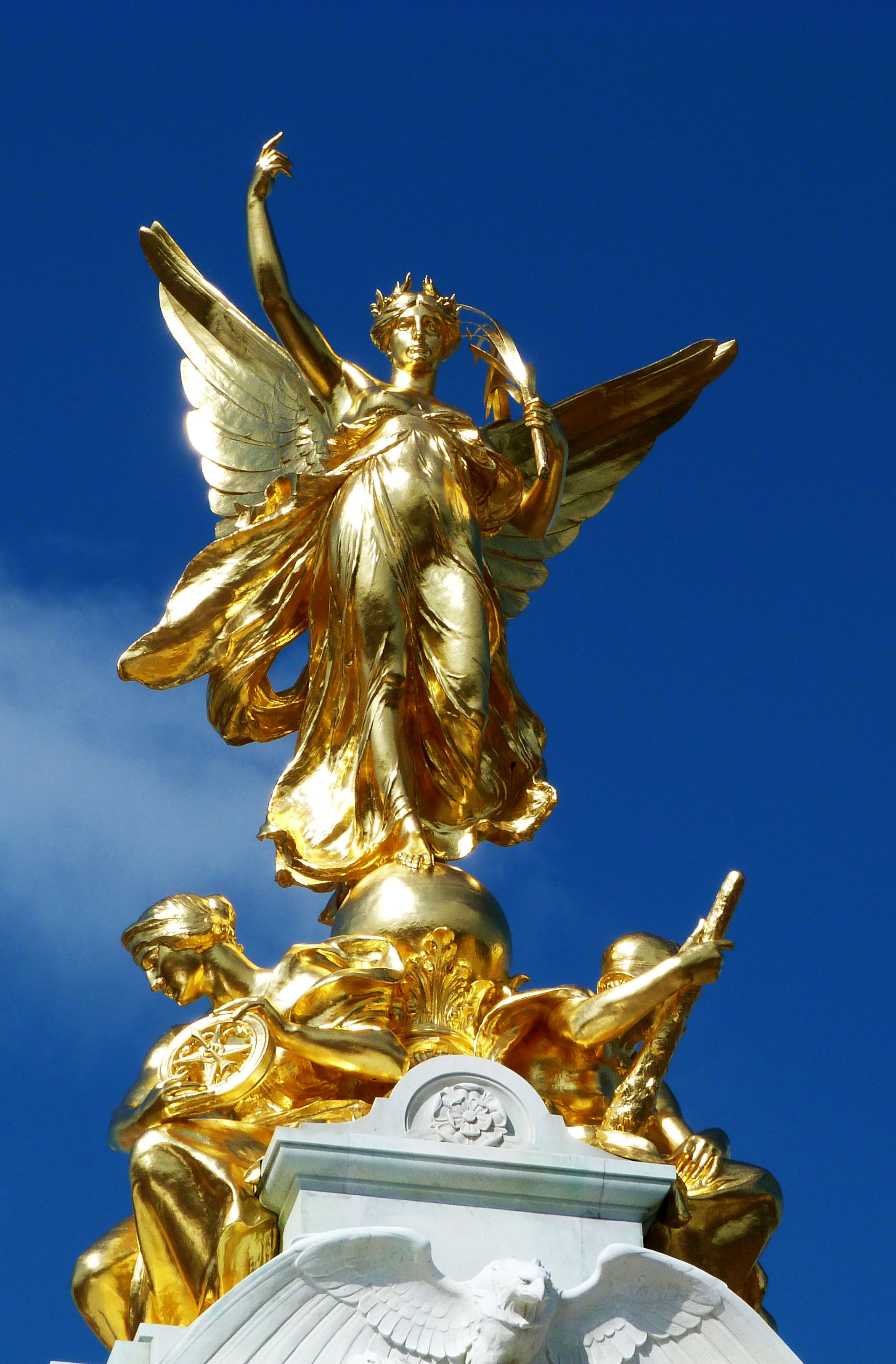 The Memorial was dedicated in 1911 by George V and his first cousin, Wilhelm II of Germany, the two senior grandsons of Victoria. The sculptor was Sir Thomas Brock. It was completed with the installation of the final bronze statues in 1924.